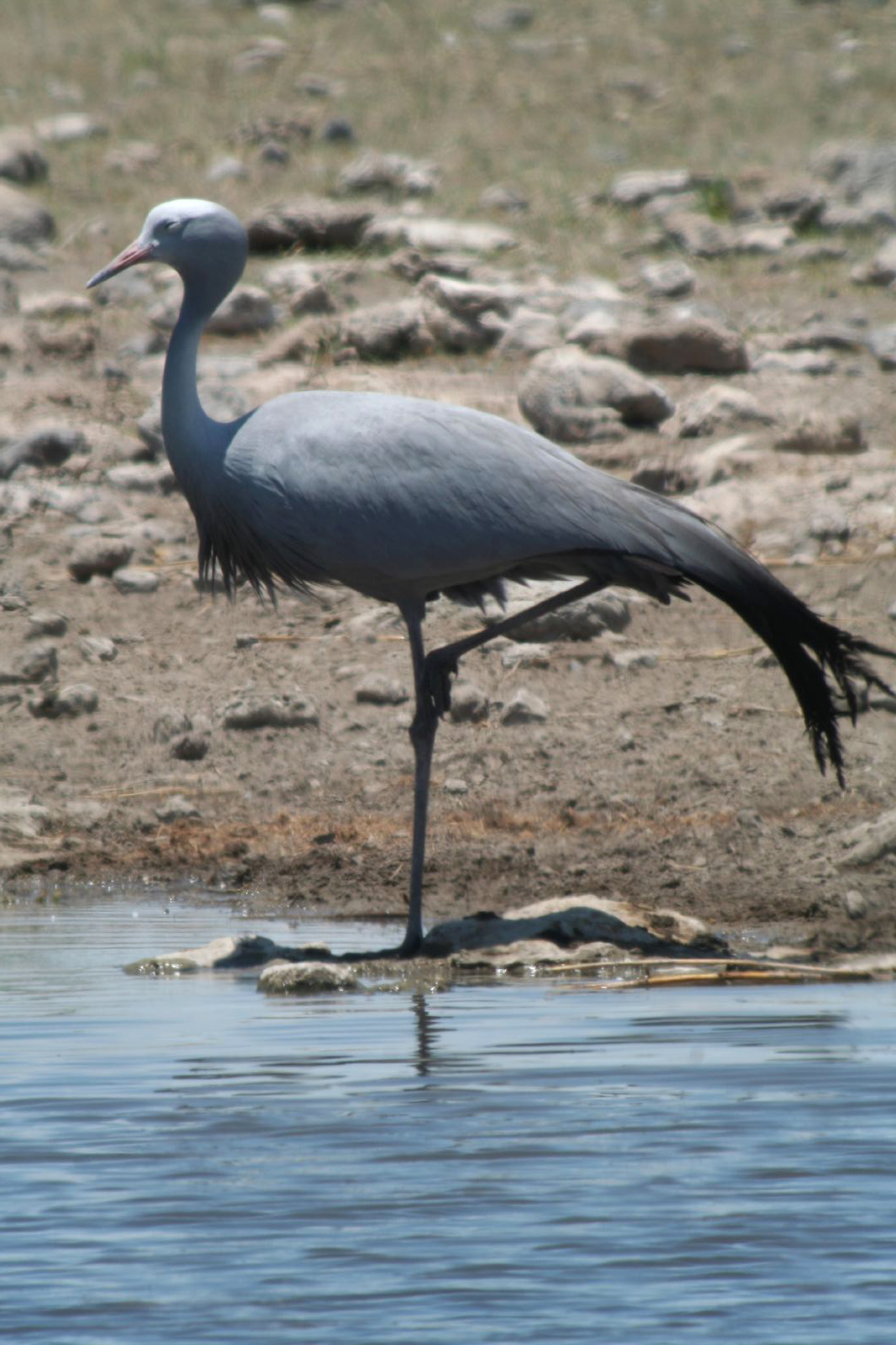 A Blue Crane (also known as the Stanley Crane and the Paradise Crane) at Etosha National Park, Namibia. It was one of two birds dozing by a waterhole.